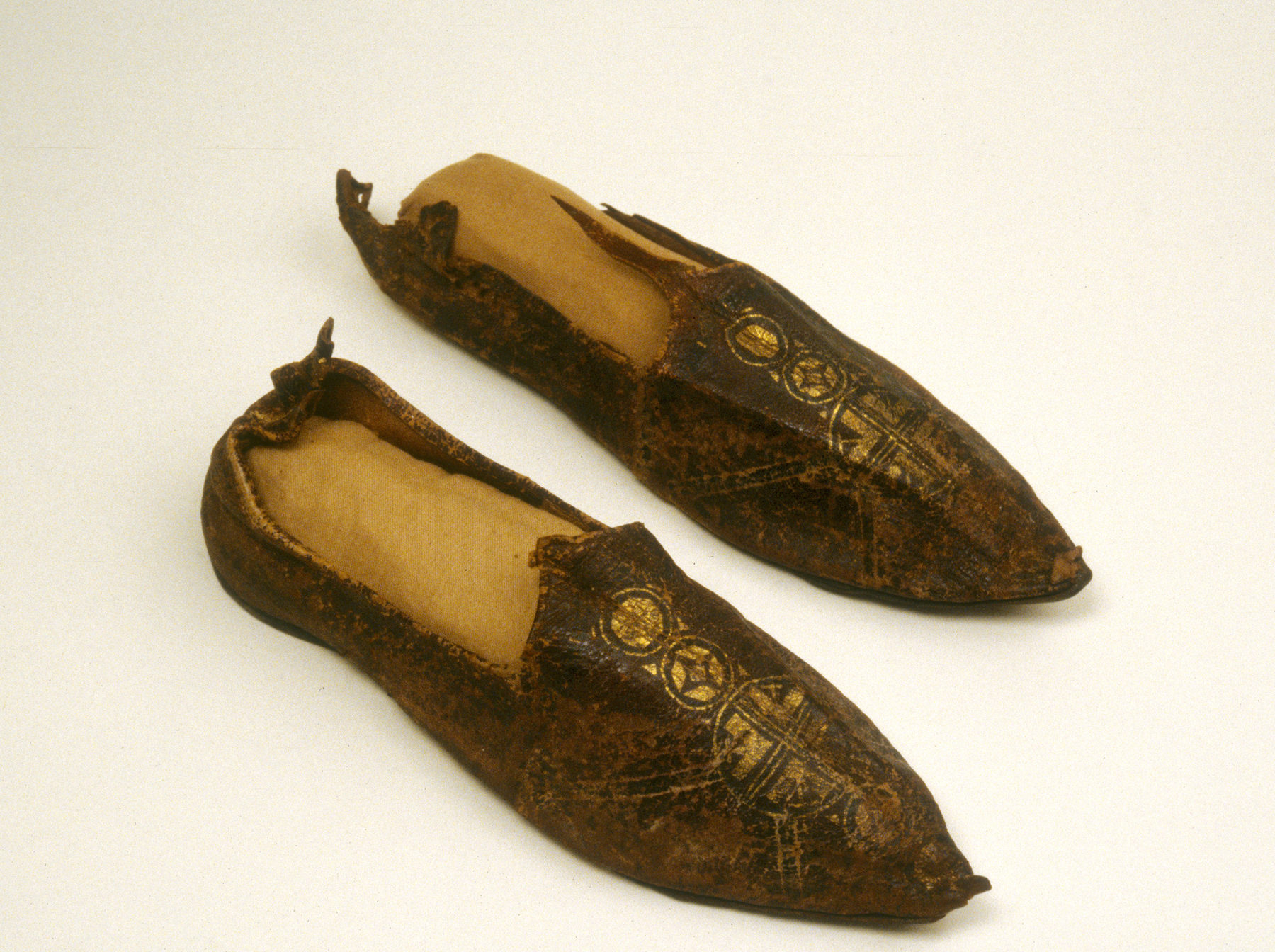 The central motif of a cross suggests that this pair of leather shoes was made for a priest, although they could also have been worn by an upper-class man. Many poor people in this period went barefoot, including shoemakers, while those who could afford to wore sandals (government officials); slippers (monks and clergy); or boots (soldiers and laborers).